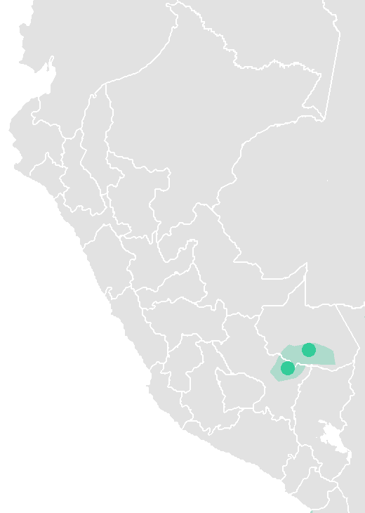 Harakmbut languages. Dots indicate documented locations of languages, shadowed areas indicate probable earlier extension. Based on data of Mary Ruth Wise "Small languages families and isolates in Peru" in The Amazonian Languages, Dixon & Alexandra Y. Aikhenvald (eds.), Cambridge: Cambridge University Press, 1999. p. 307-340. Also Ethnologue map of Peru